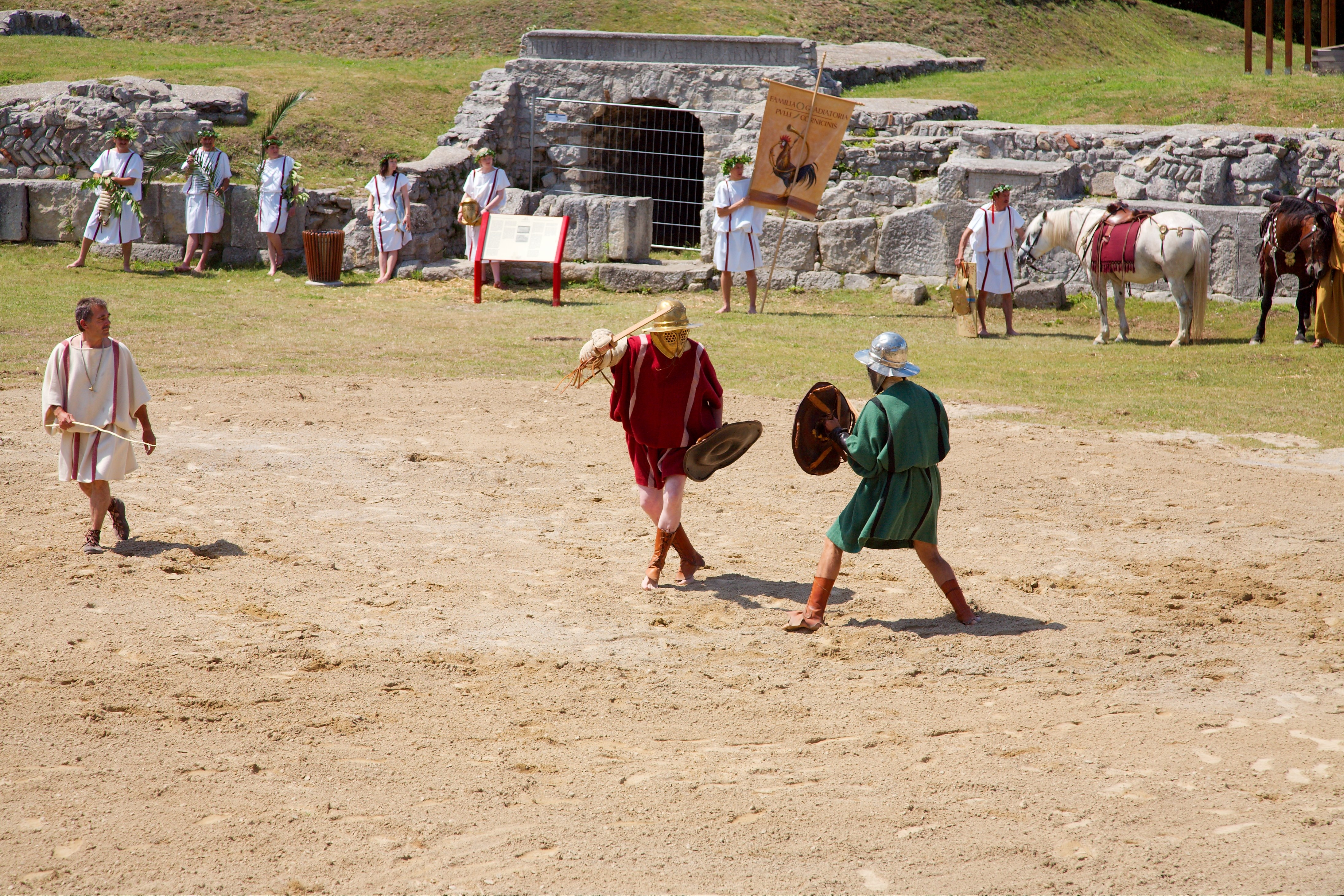 Gladiator "eques" during a show in Carnuntum